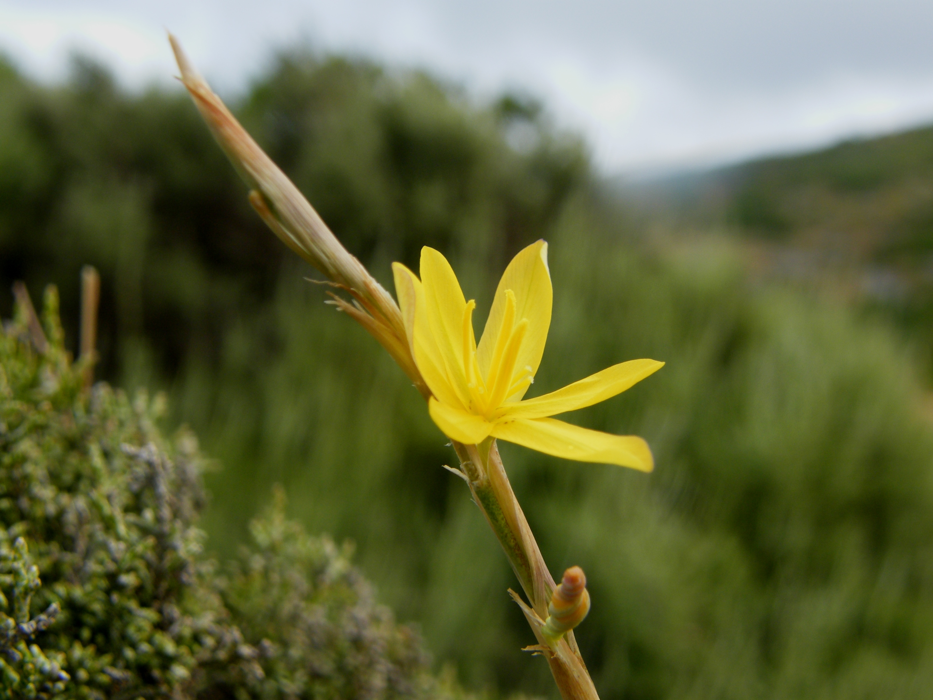 Moraea